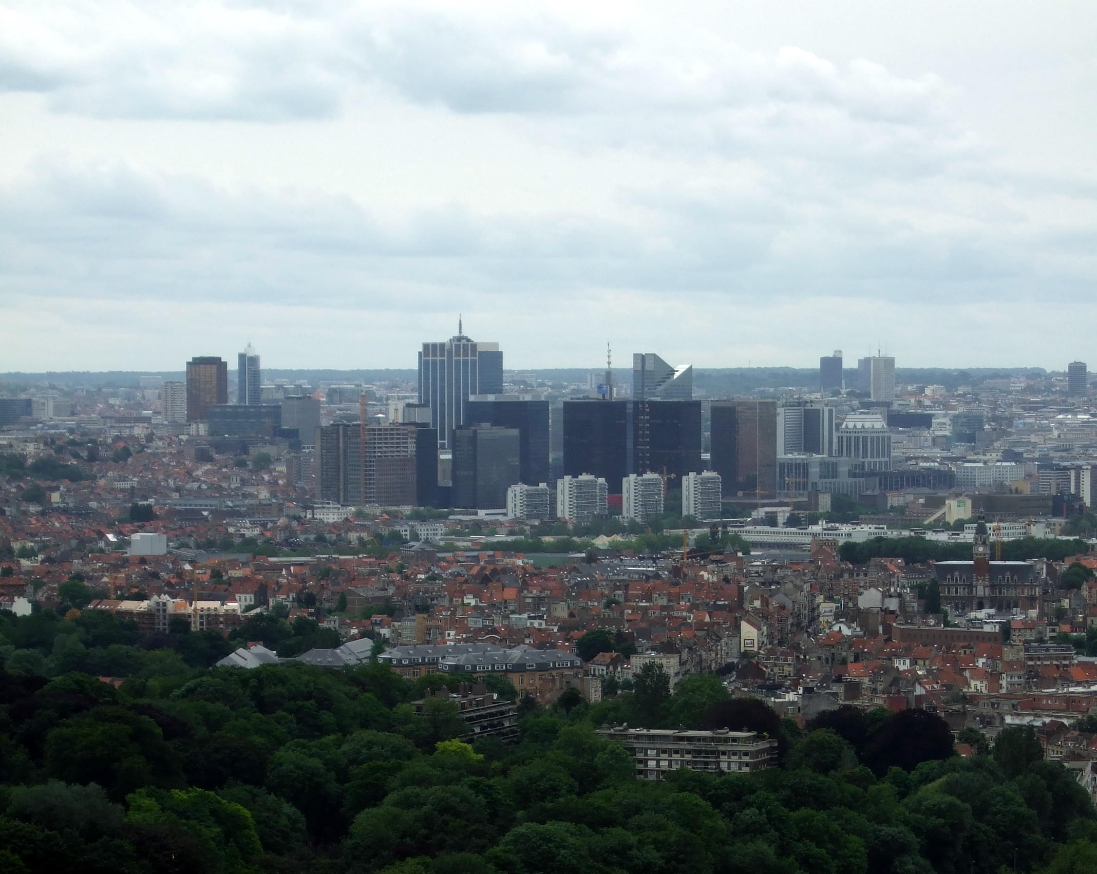 Brussels skyline